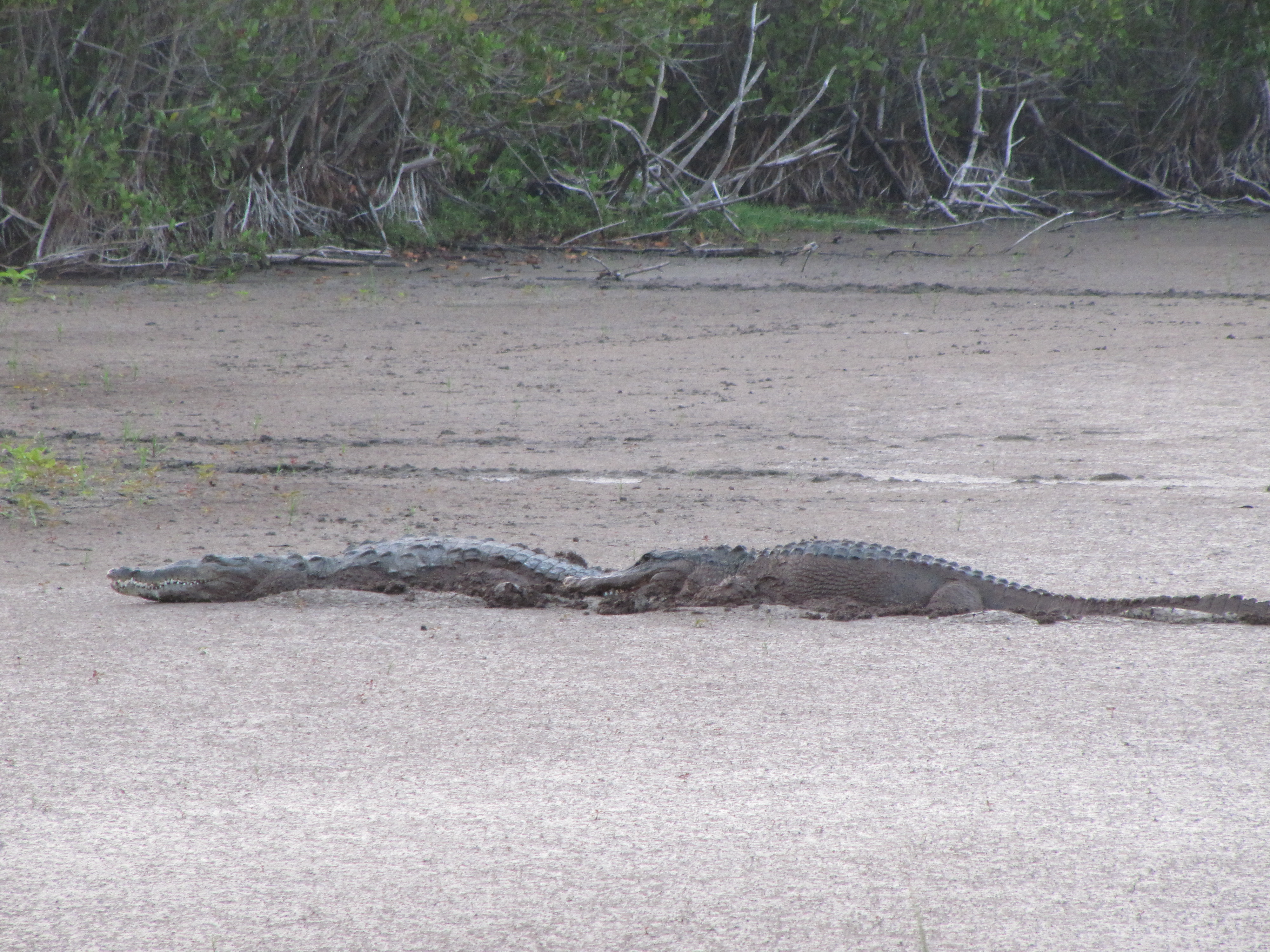 Crocodile and Gator at Mrazek Pond (2), EVER, NPSPhoto, SCotrell, 4-2011